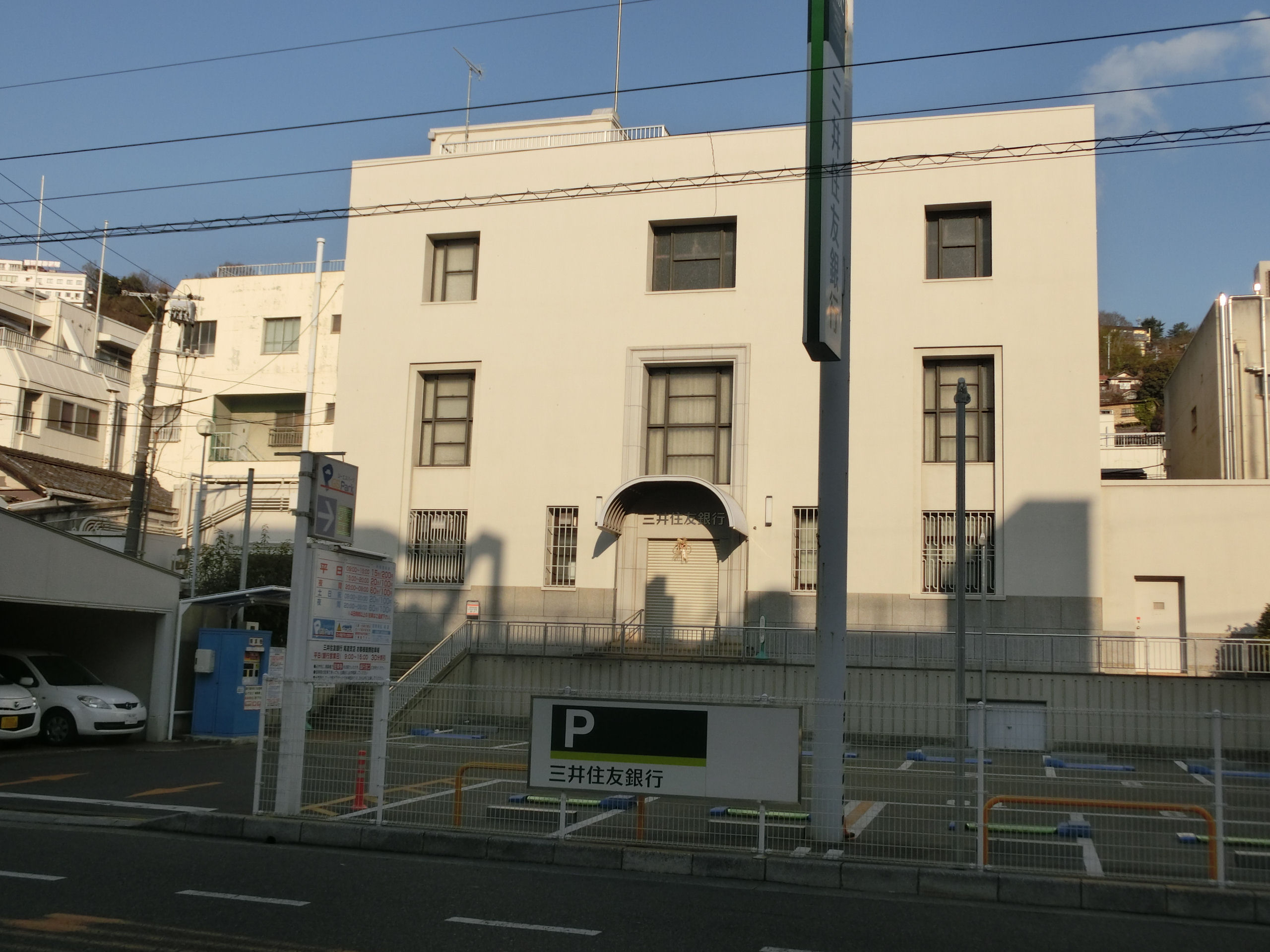 SMBC (Sumitomo Mitsui Banking Corporation) Onomichi Branch